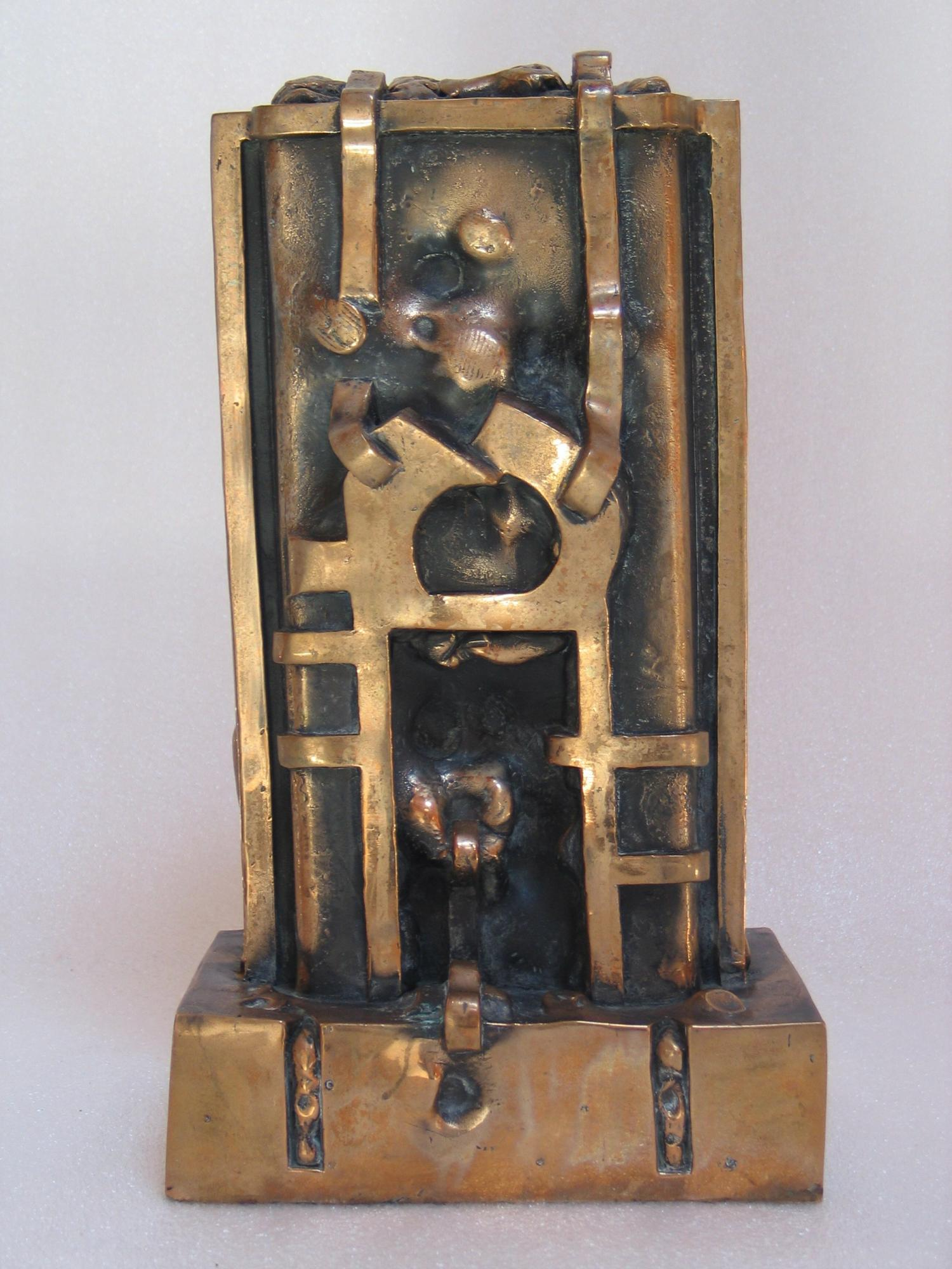 Roberto Tirelli; "Nulla ci farà schiavi"